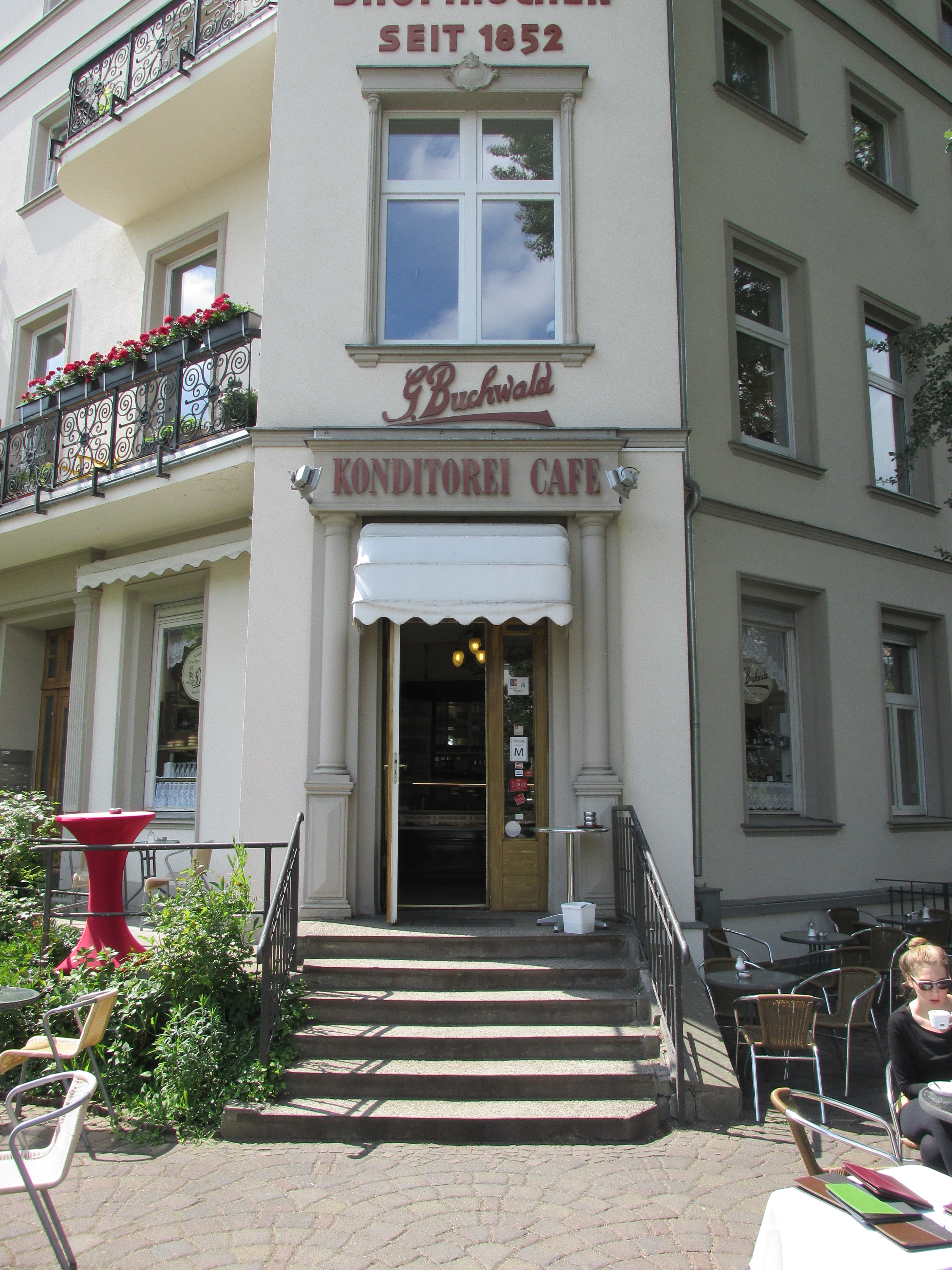 Front of Konditorei Buchwald cake shop and cafe.